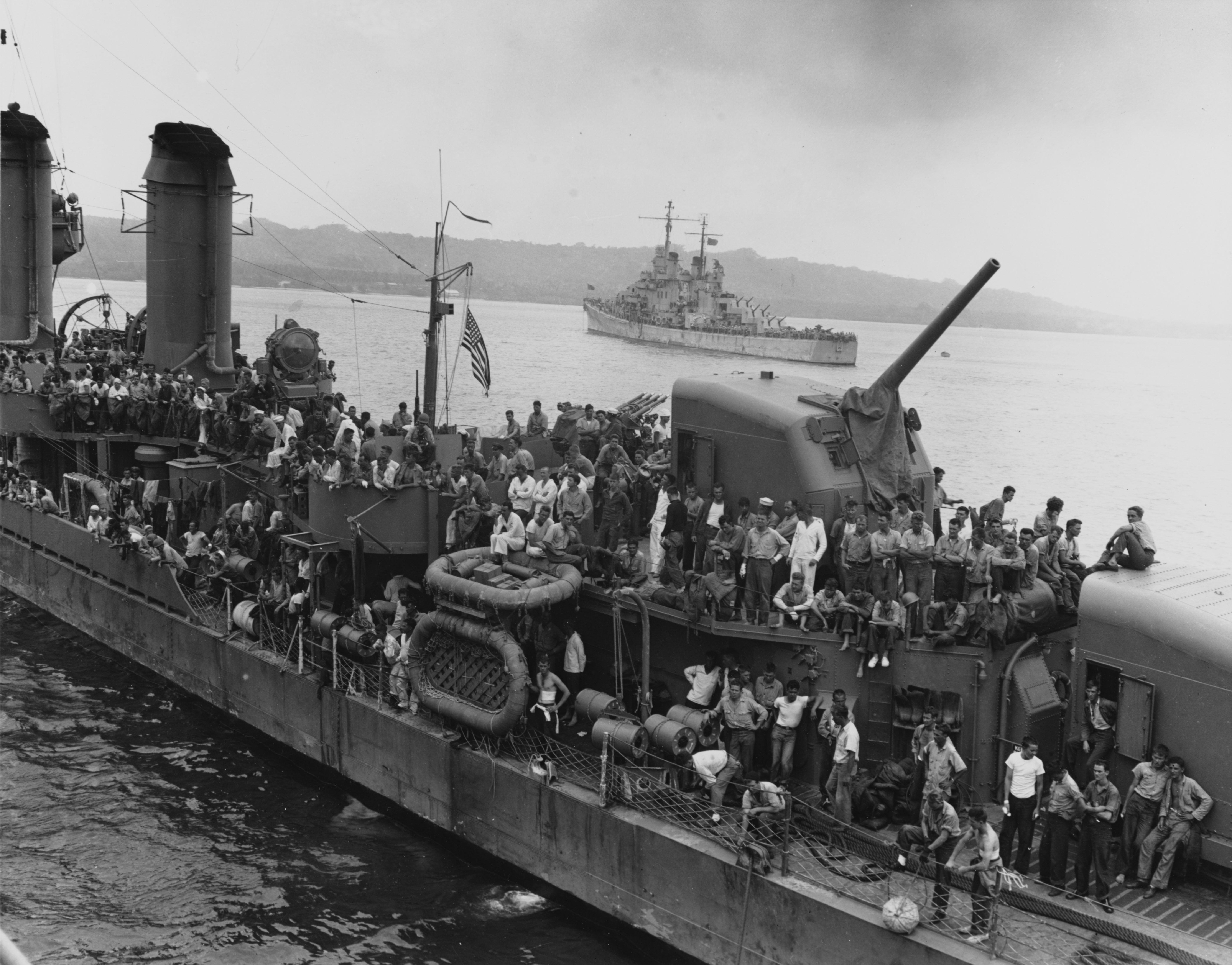 The U.S. Navy destroyer USS Laffey (DD-459) in harbour, probably at Espiritu Santo, New Hebrides, with survivors of USS Wasp (CV-7) on board. Wasp had been sunk by a Japanese submarine on 15 September 1942. Note Laffey's 127 mm/38 guns, depth charges, and life rafts. The light cruiser in the center background is USS Juneau (CL-52).